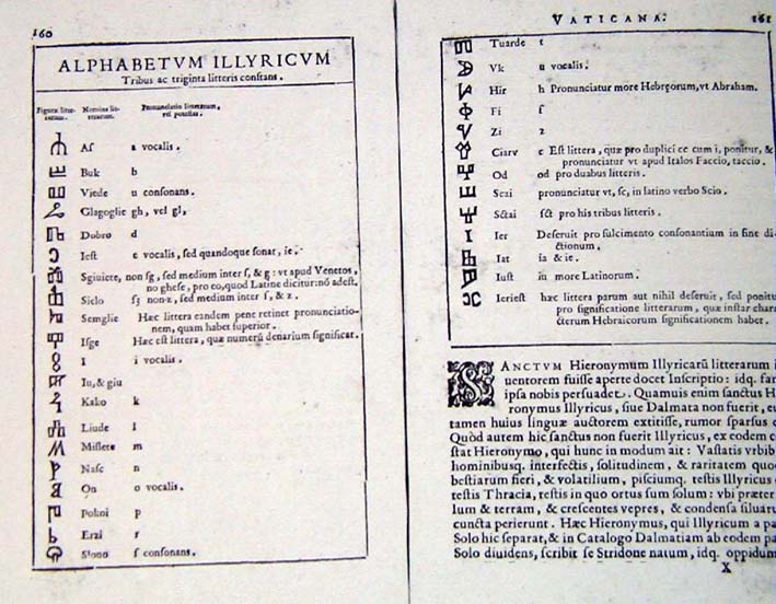 Pages from a book describing Glagolitic script. (A. Rocca: Biblioteca Apostolica Vaticana a Sixto V... translata, Roma, 1591: Alfabeto glagolitico)